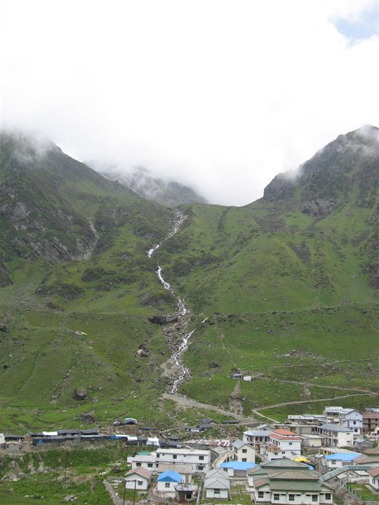 View of kedarnath village from hill top